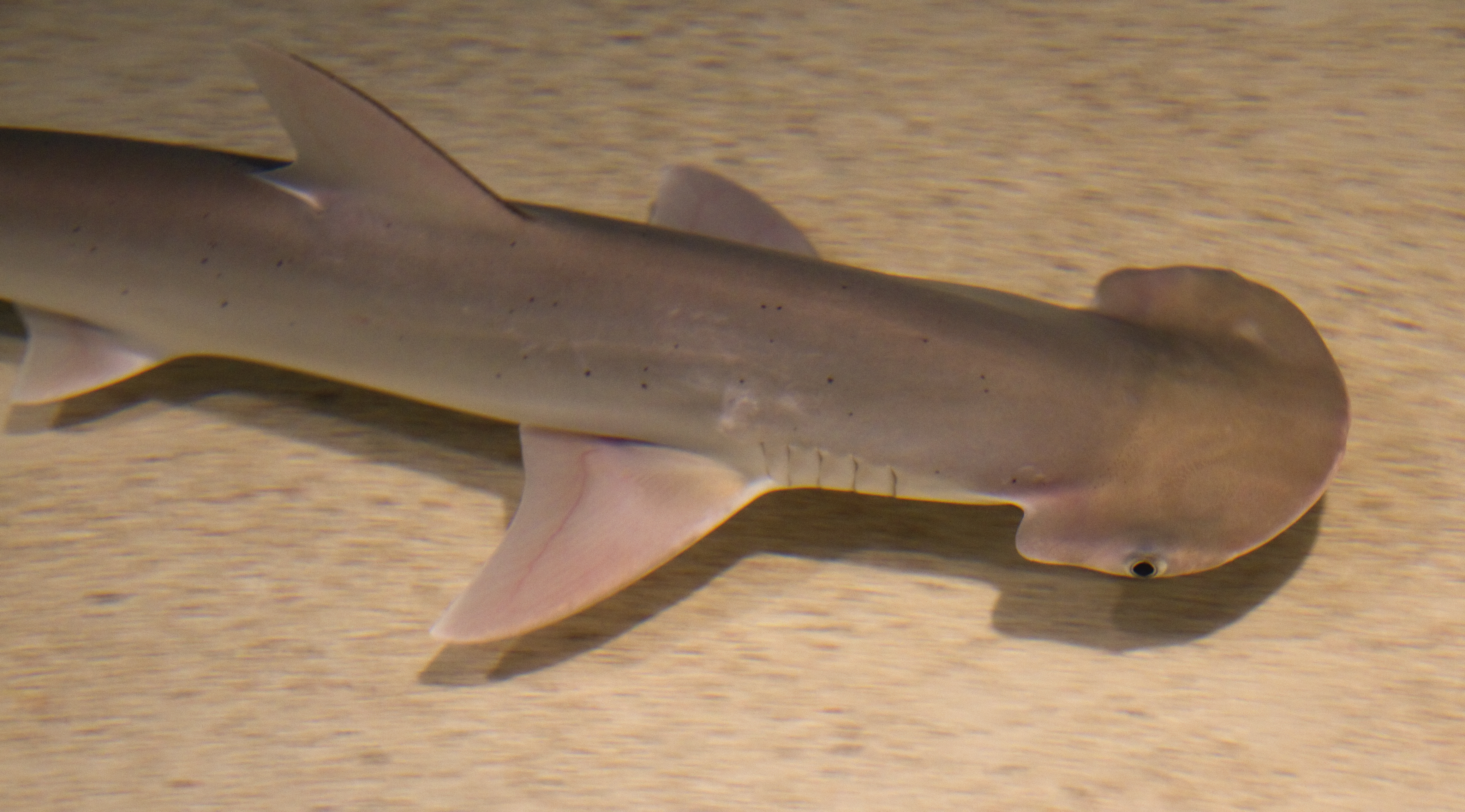 Bonnethead shark (Sphyrna tiburo)